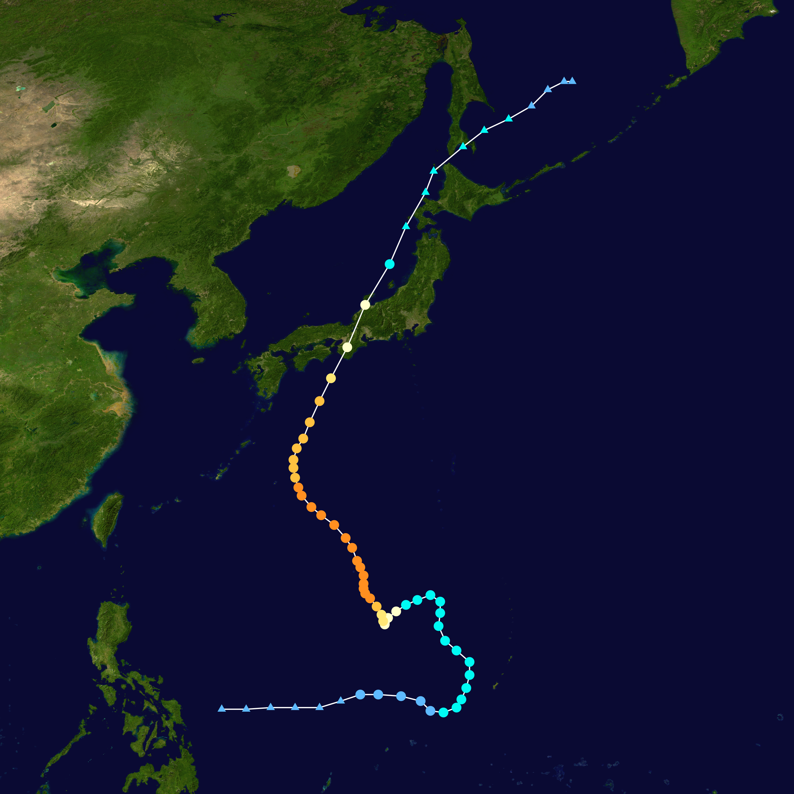 Typhoon Orchid 1994 track. Uses the color scheme from the Saffir-Simpson Hurricane Scale.